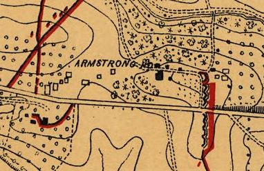 Detail of an 1864 map of Knoxville's Civil War-era defenses and troop movements showing Confederate troop formations (in red) around the Armstrong House on Kingston Pike.